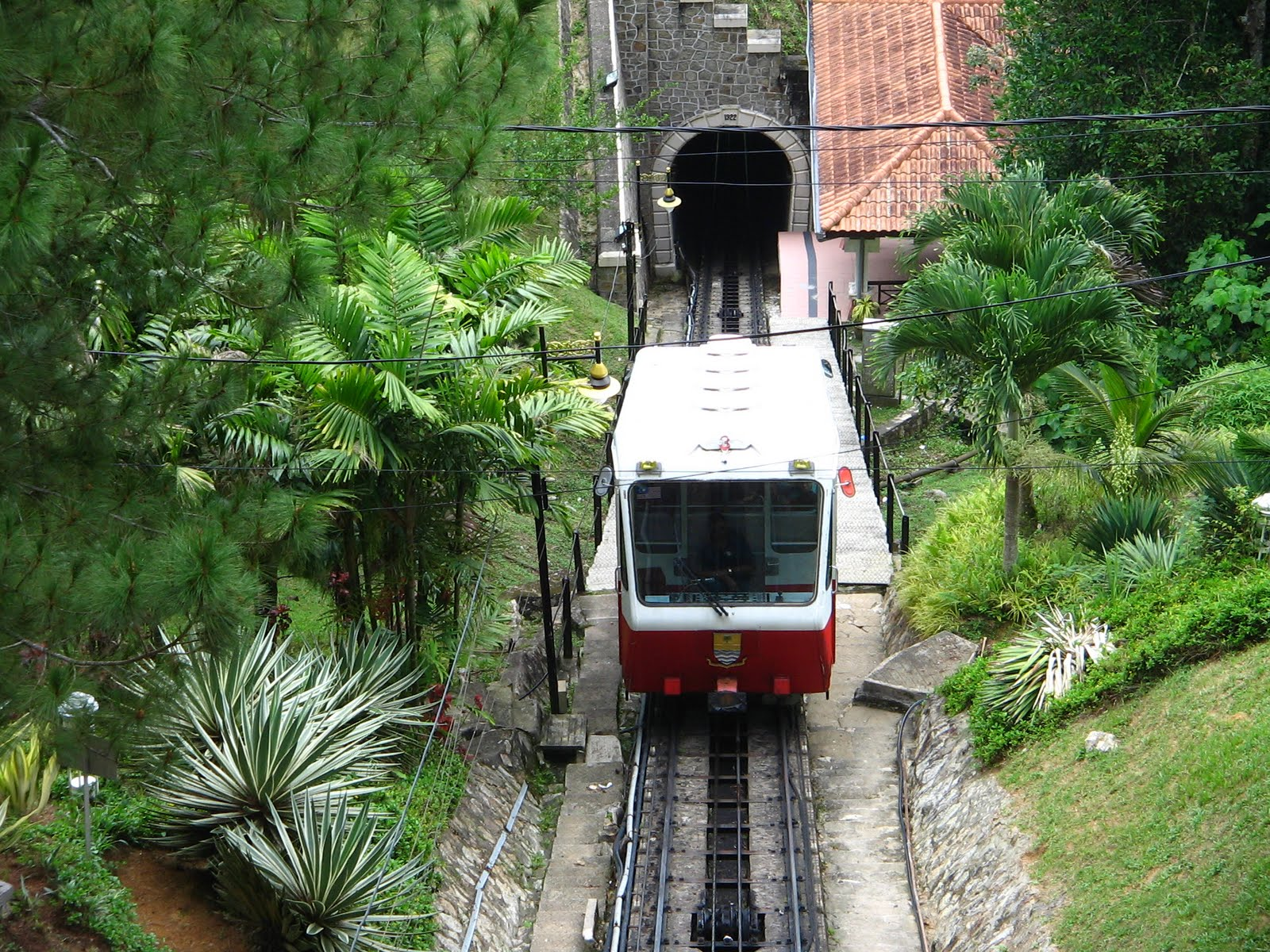 Penang Hill funicular.